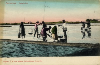 Sumenep evaporation pond